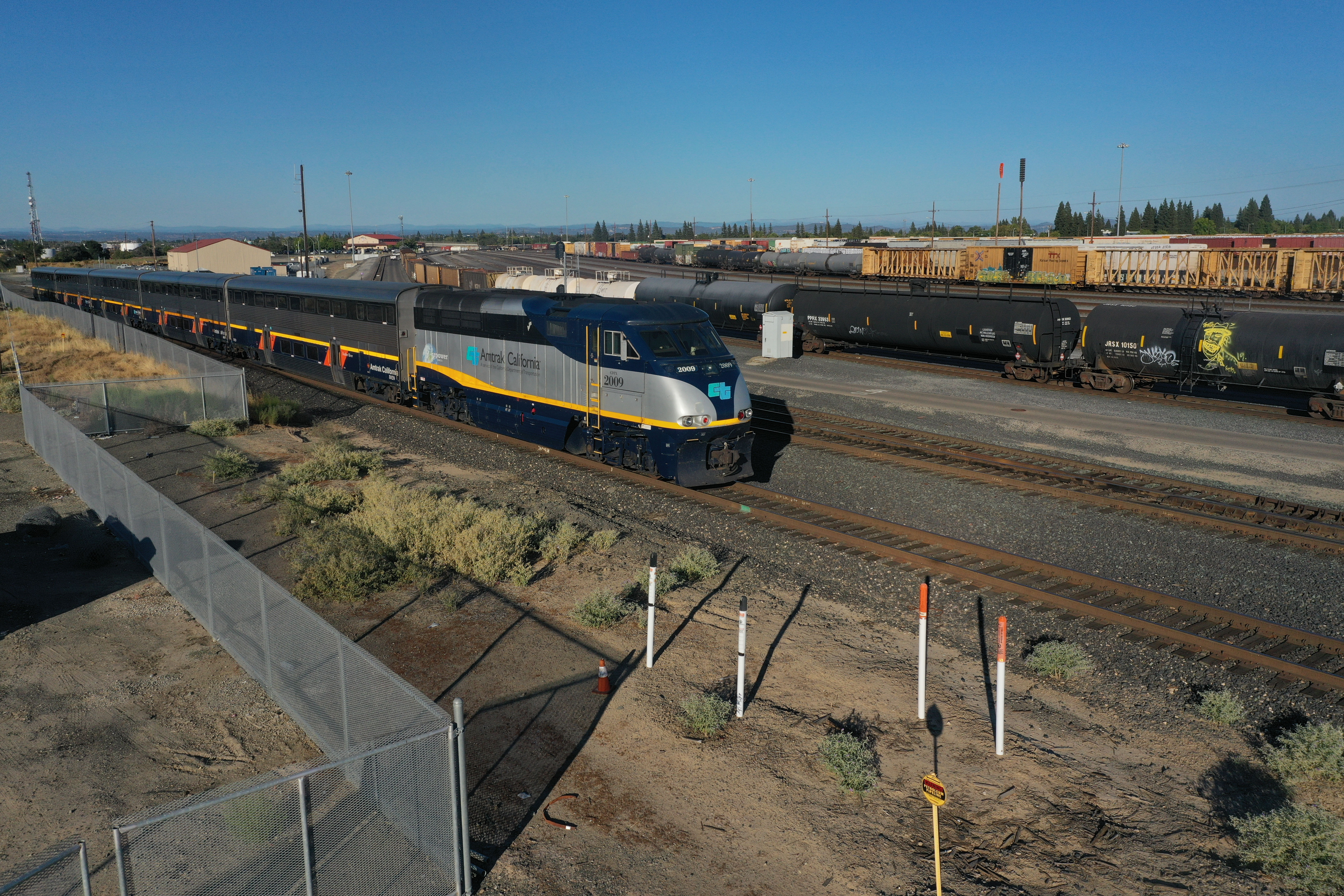 EMD F59PHI #2009 with an Amtrak Capitol Corridor train passing through Davis Yard in September 2019